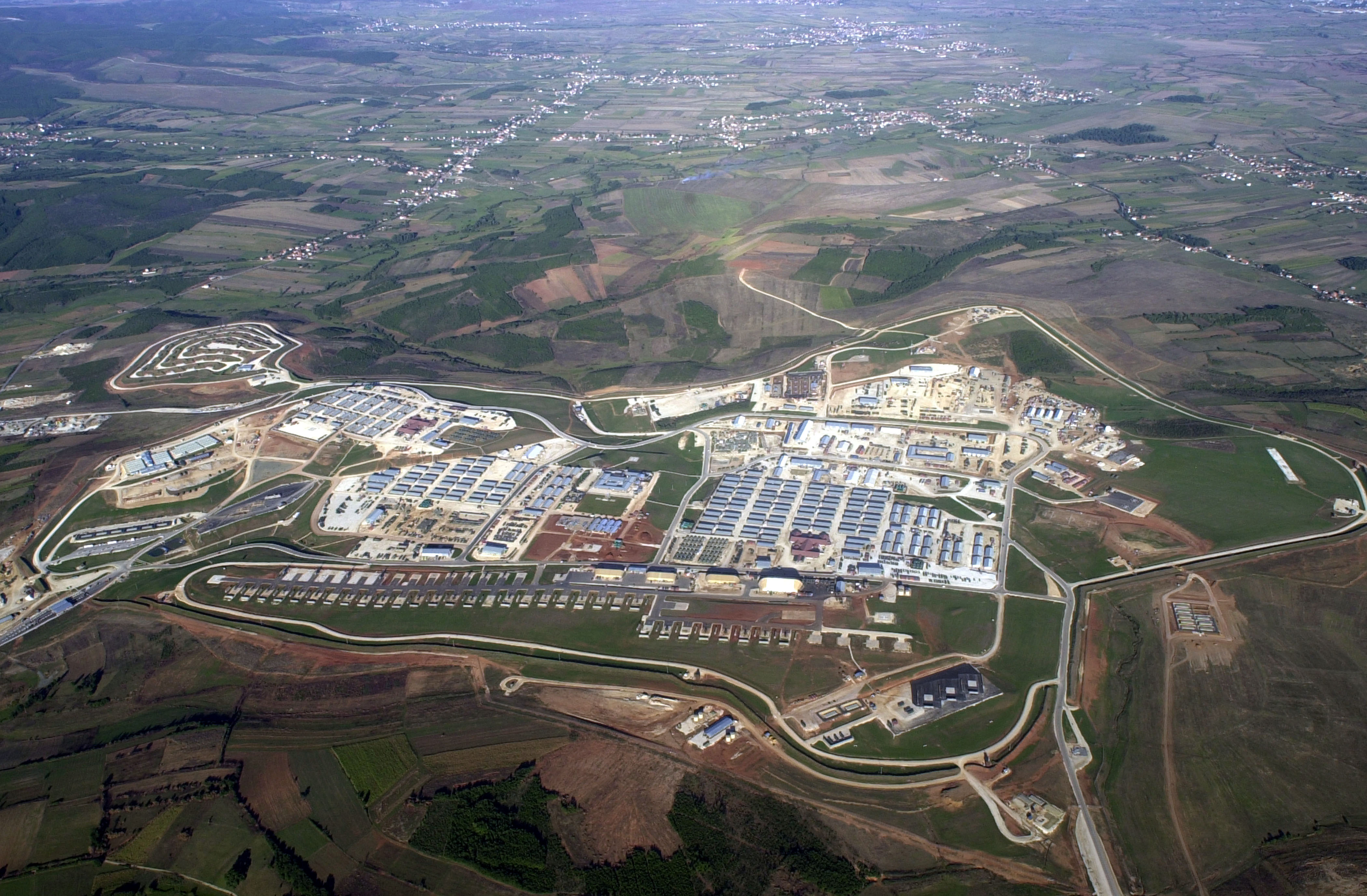 Aerial view on camp Bondsteel,near Uroševac.